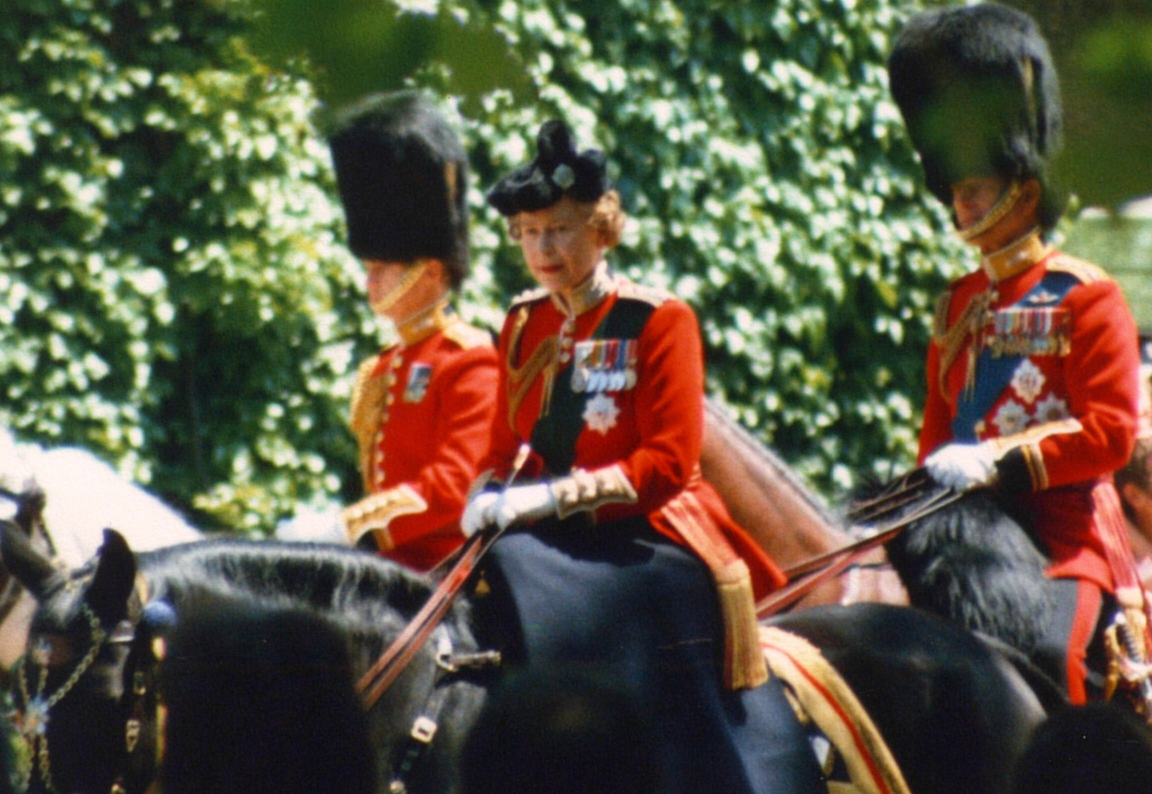 Photograph of Queen Elizabeth II riding to trooping the colour for the last time in July 1986. The queen rode the same horse, 'Burmese', originally presented by Canadian government, from 1969 to 1986. With Charles, Prince of Wales, on the white horse to the left, and Philip, Duke of Edinburgh on the bay horse behind the Queen.